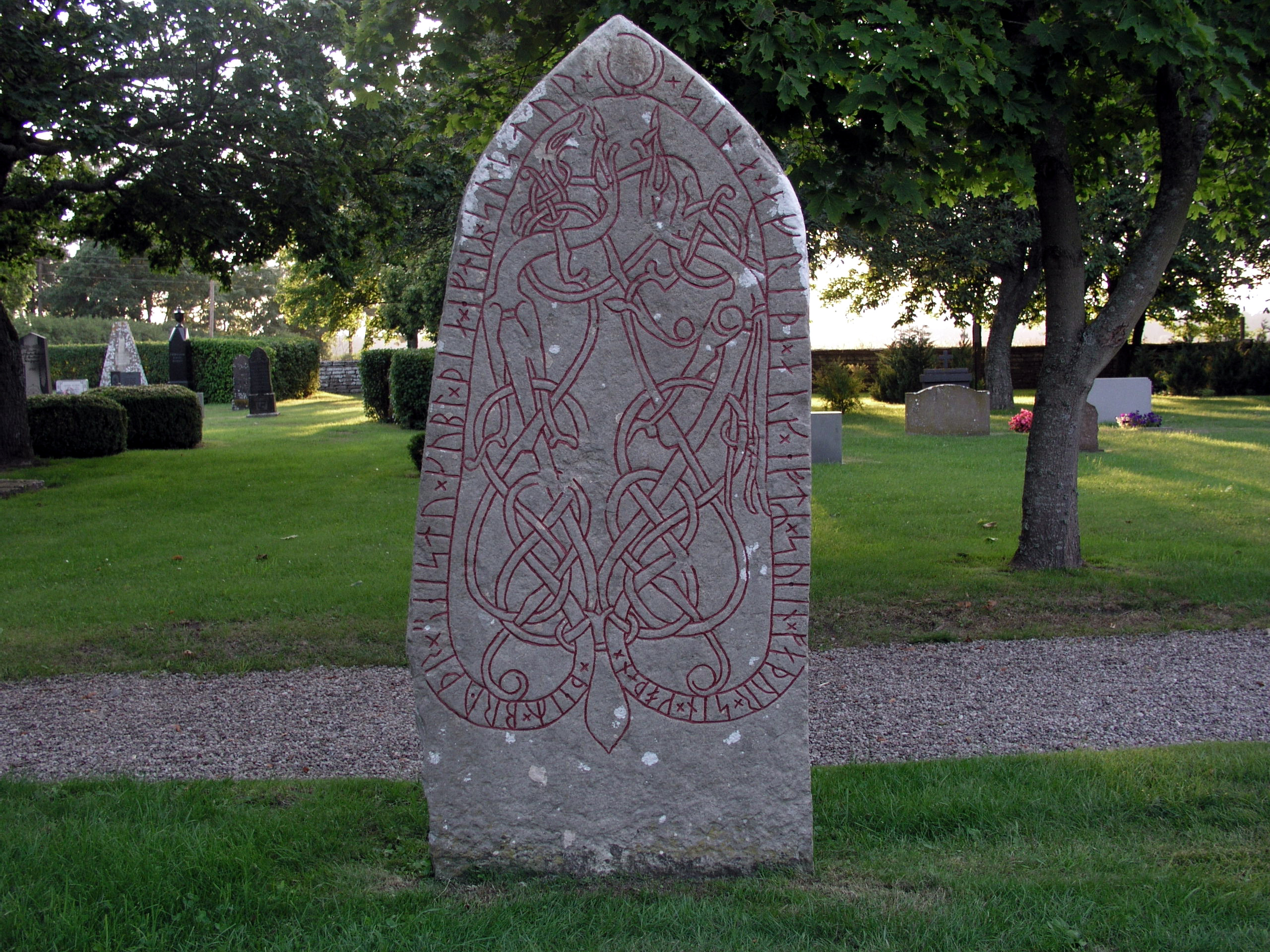 Sandby kyrka / church. Runic stone. Öl 27. Mörbylånga, Öland.